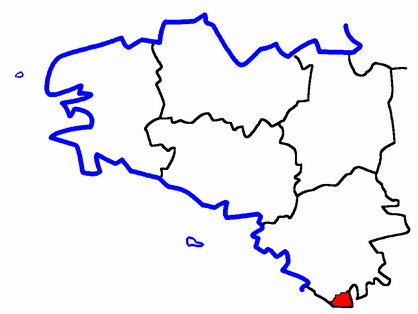 Description: Map for localisazion of cantons of Pays-de-Loire, region in France Source: made by Hervé Tigier in april 2005 from another large map (published in 1990)